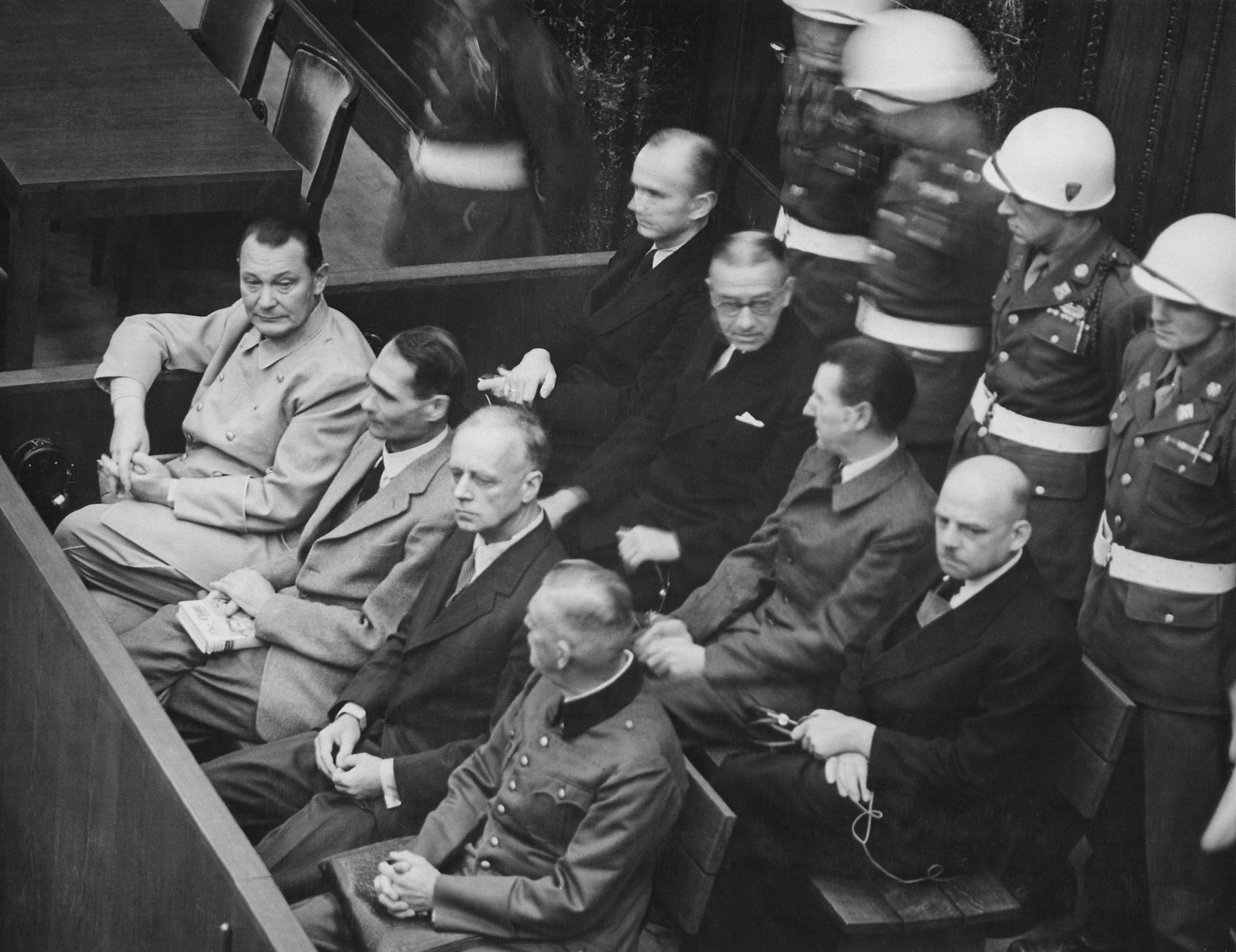 Nuremberg Trials. Defendants in their dock, circa 1945-1946. (in front row, from left to right): Hermann Göring, Rudolf Heß, Joachim von Ribbentrop, Wilhelm Keitel(in second row, from left to right): Karl Dönitz, Erich Raeder, Baldur von Schirach, Fritz Sauckel